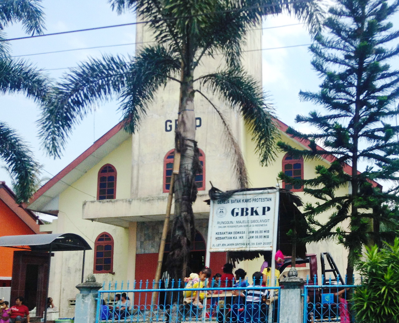 GBKP Rg. Sibolangit, Klasis Sibolangit, Church in Sibolangit, Deli Serdang